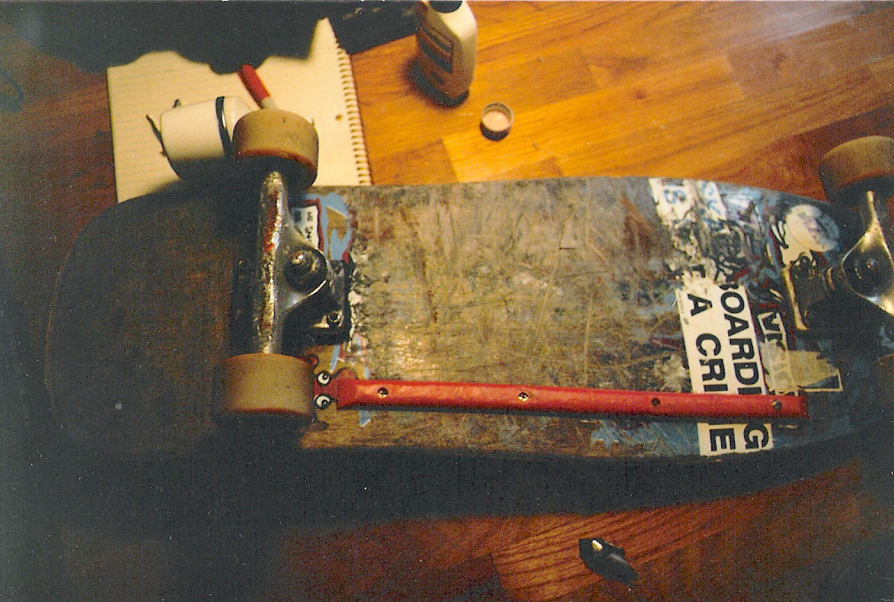 I took this picture right when we got home from our epic skate tour to Las Vegas and Southern California. Andy and I stayed with Brian Lotti in Vegas for a week and Steve Rocco in Hermosa for two. Before this trip I thought i was going to be a pro skater. After skating with Brian Lotti, Jason Lee, Frankie Atwater and Jake Piasheki I realized I needed to go to college.